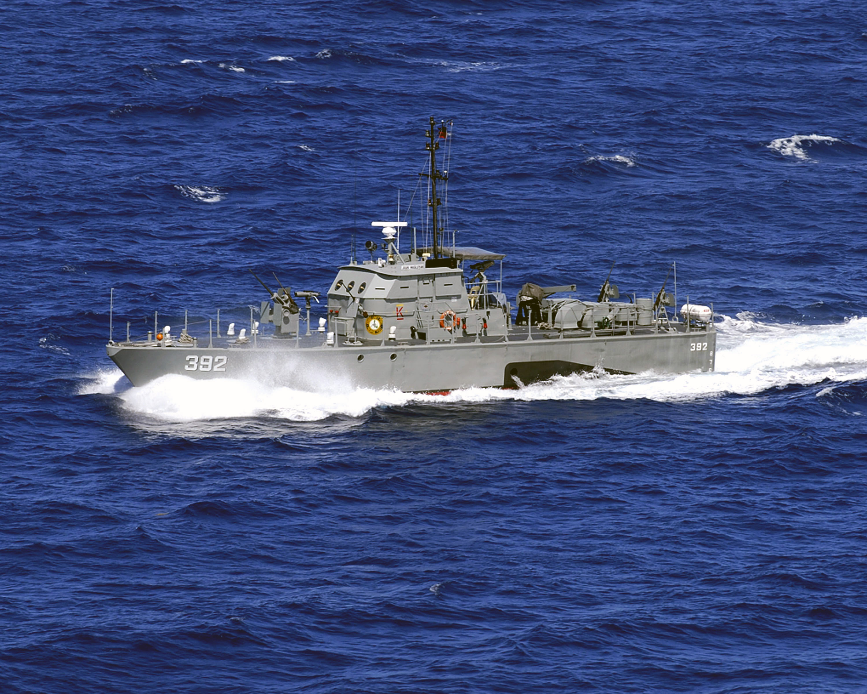 SOUTH CHINA SEA (Feb. 24, 2008) The Republic of the Philippine Jose Andrada-class patrol craft BRP Juan Magluyan (PG-392), steams in the South China Sea for bilateral training with the Essex Expeditionary Strike Group as part of the annual bilateral exercise Balikatan 2008, between the Republic of the Philippines and the United States. During the Balikatan 2008 humanitarian assistance and training activities, military service members from the United States and the government of the Republic of the Philippines work together to improve maritime security and ensure humanitarian assistance and disaster relief efforts are efficient and effective.